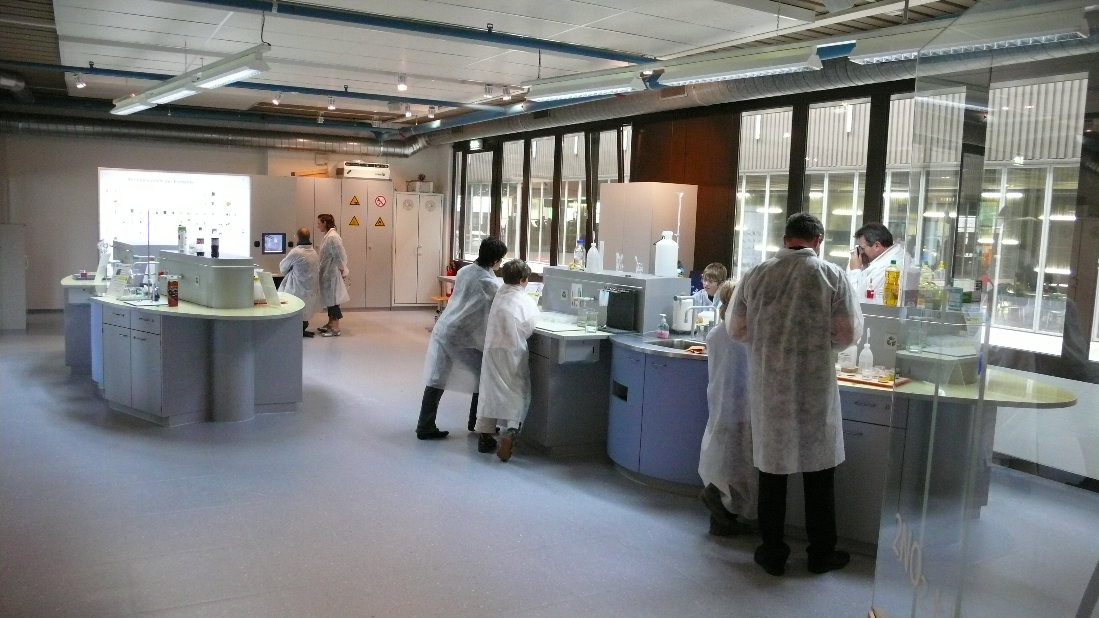 Technorama, Winterthur